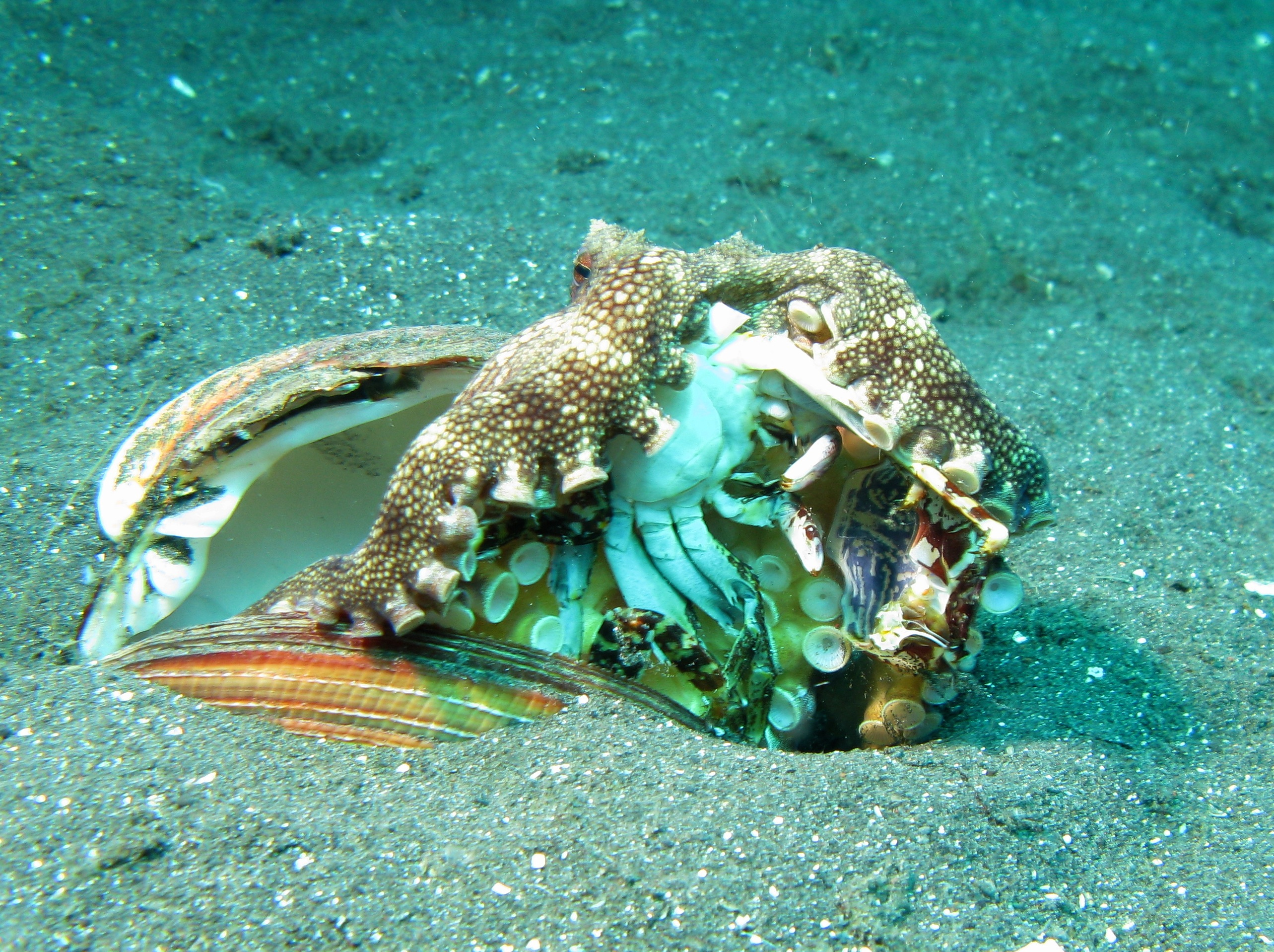 Veined Octopus - Amphioctopus marginatus eating a Crab.